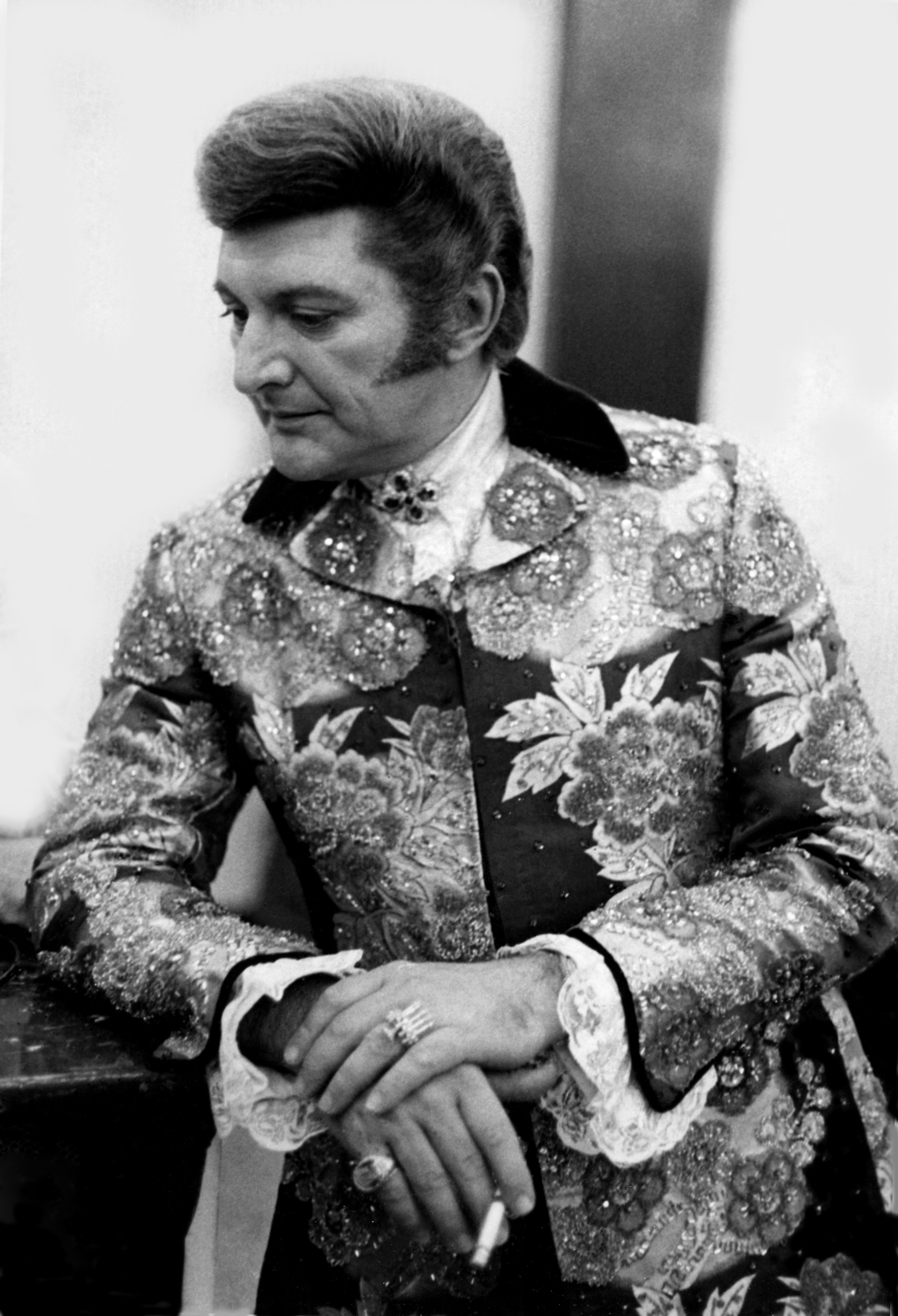 Liberace smoking in a London rehearsal room.